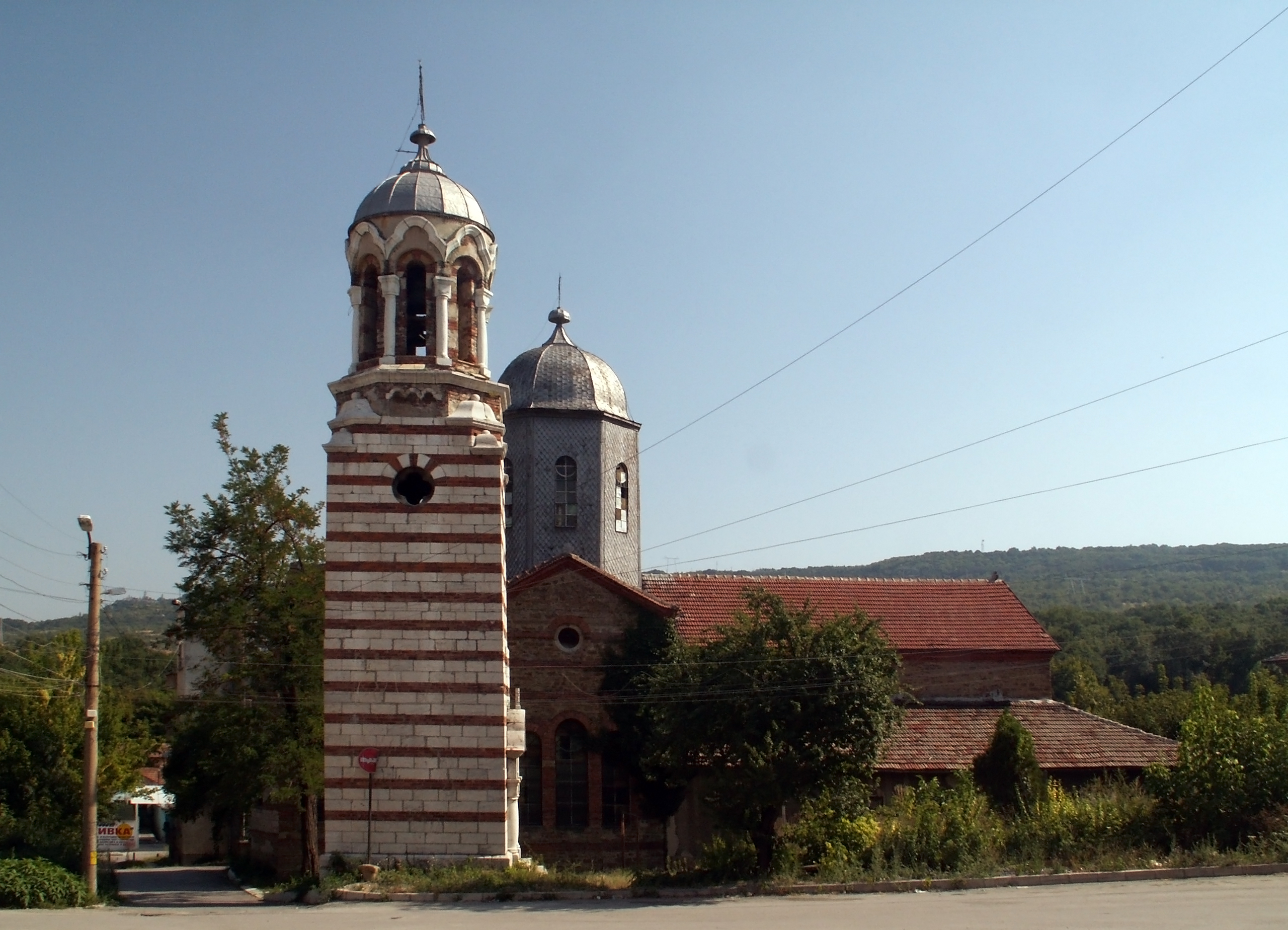 Saint Nicolas church of Gorna Oryahovitsa, Bulgaria